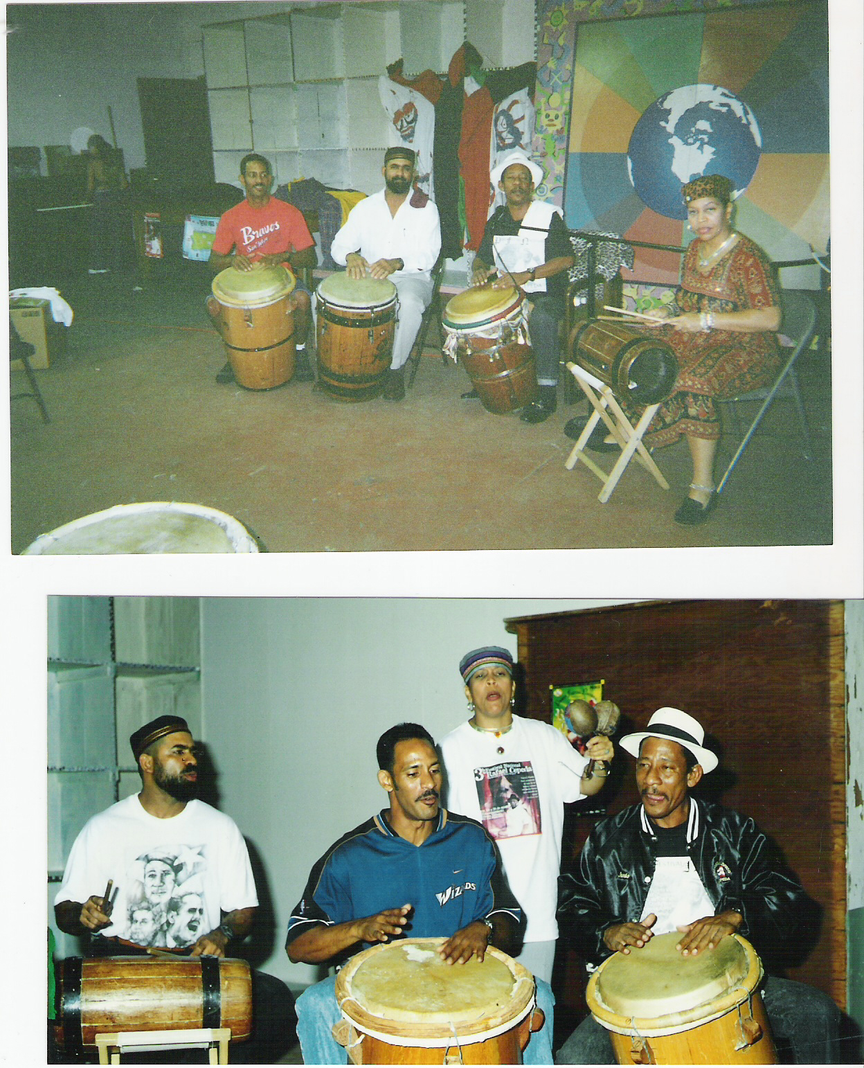 Two or more drums, always one Subidor and one Buleador or more, Cua and one Maraca., Providence Rhode Island